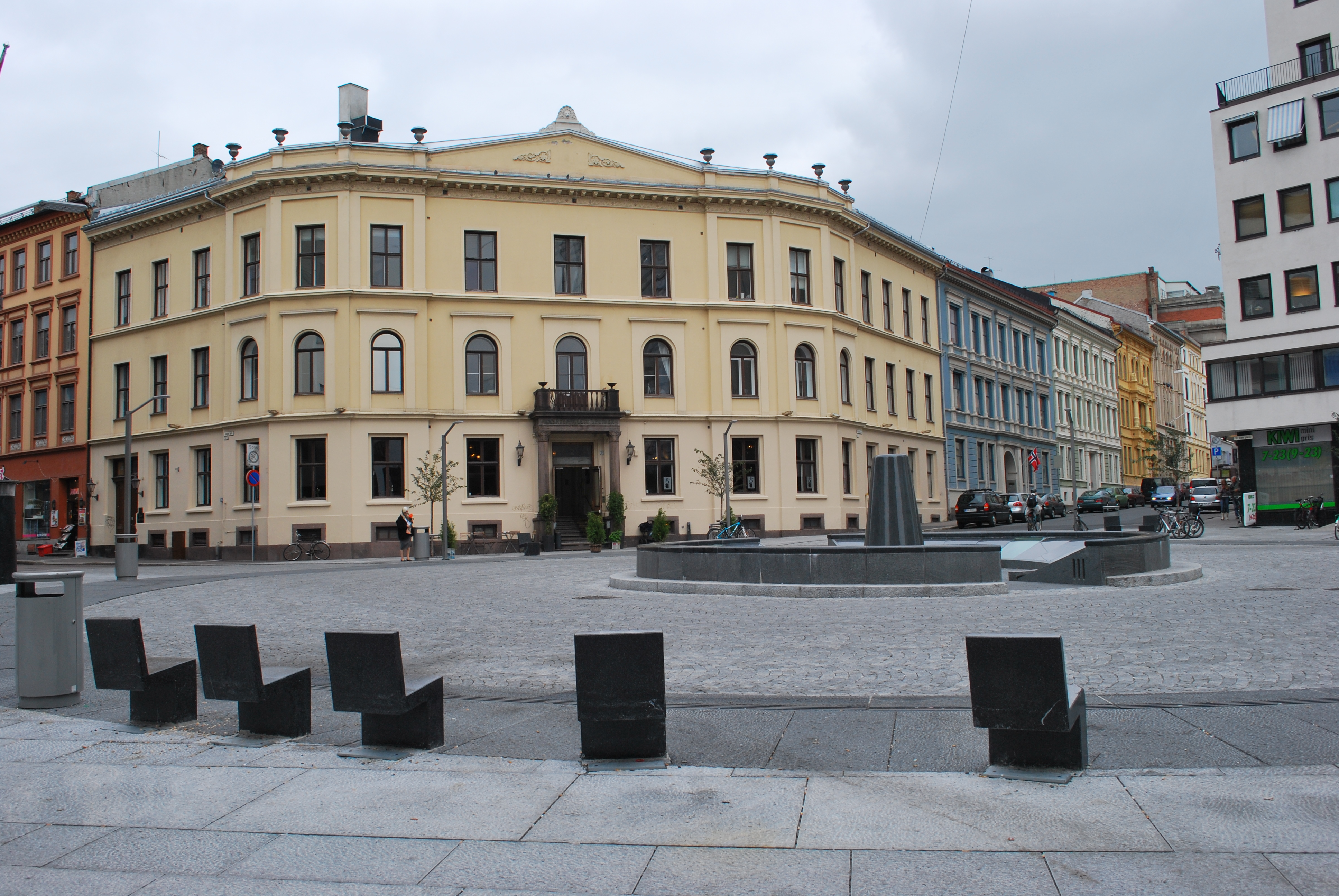 St. Olavs plass (square), Oslo. The building (1872) is former Rikshospitalets apotek (Pharmacy for the National Hospital), now restaurant Ylajali and café Tekehtopa